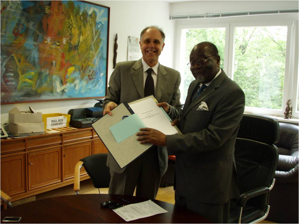 Signing of the West African Elephant MoU by Ghana (Ambassador Grant)